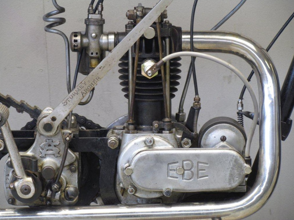 Swedish EBE-motorcycle engine from 1929